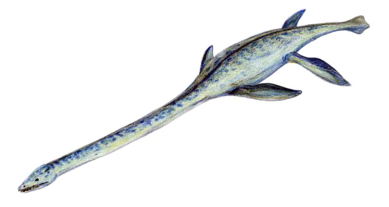 Elasmosaurus, Pencil drawing Author:User:ArthurWeasley